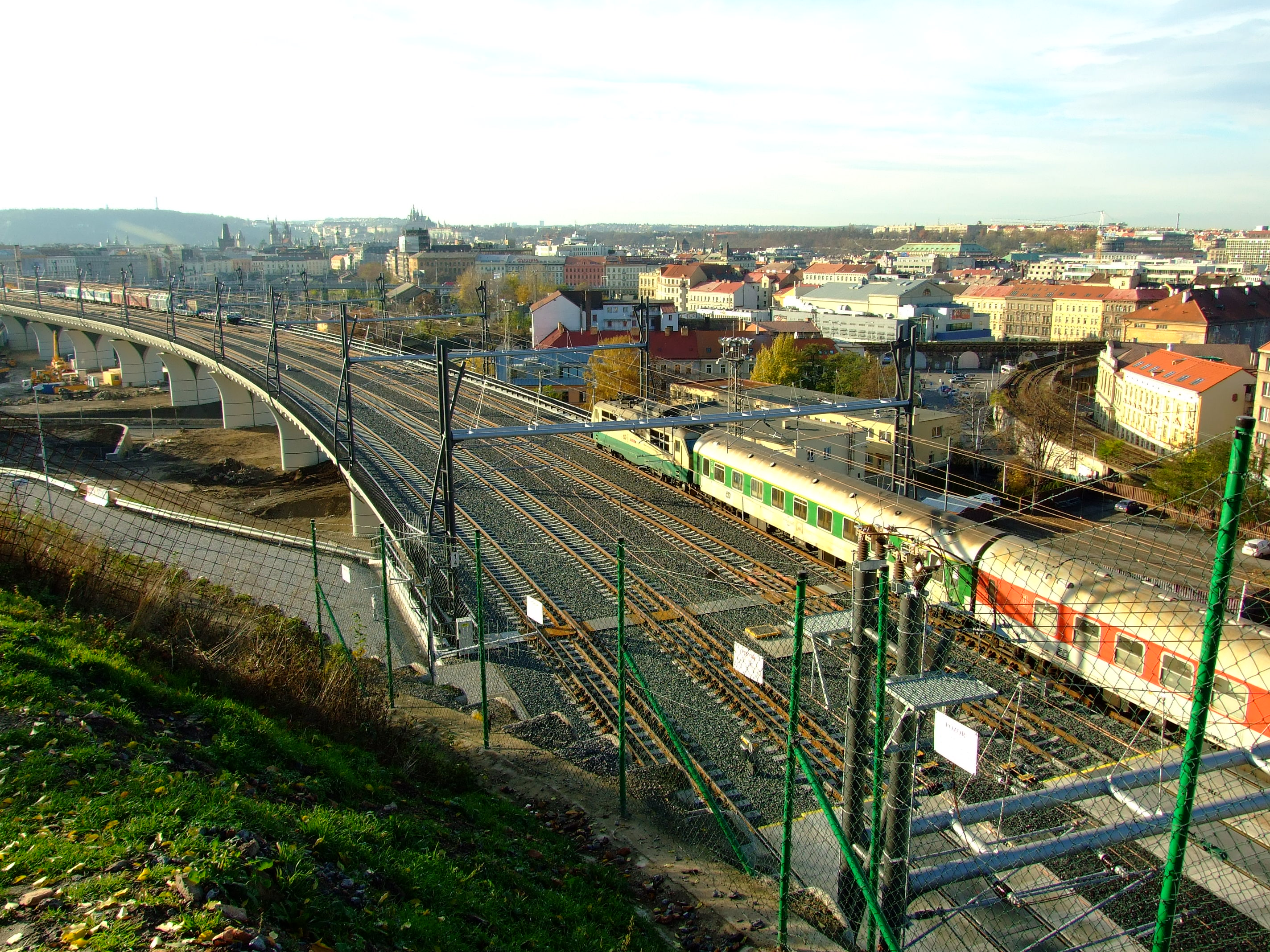 View of Karlín and Florenc from Vítkov hill, Prauge, CZhelp